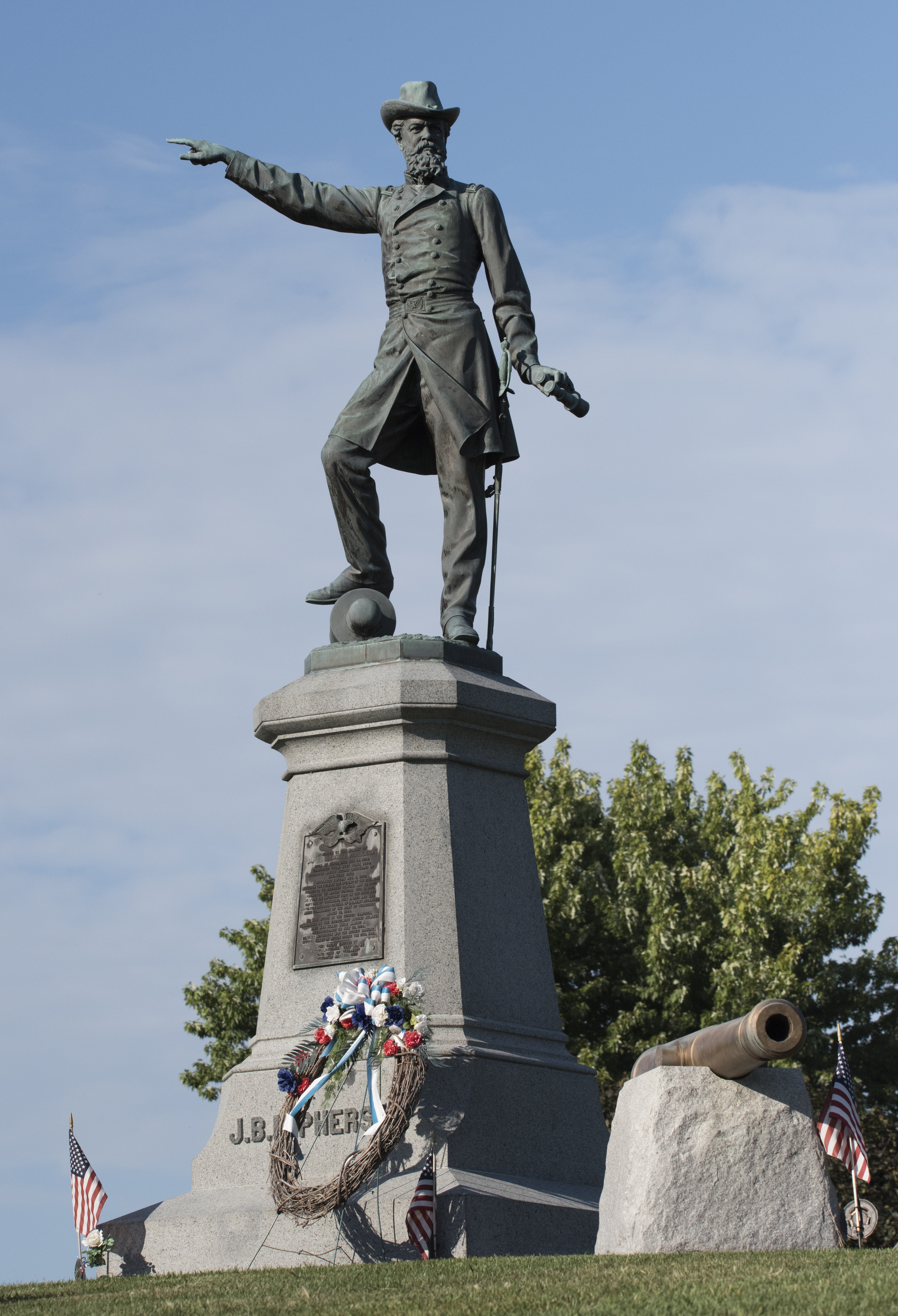 J.B. McPherson full monument; McPherson Cemetery, Clyde, Ohio